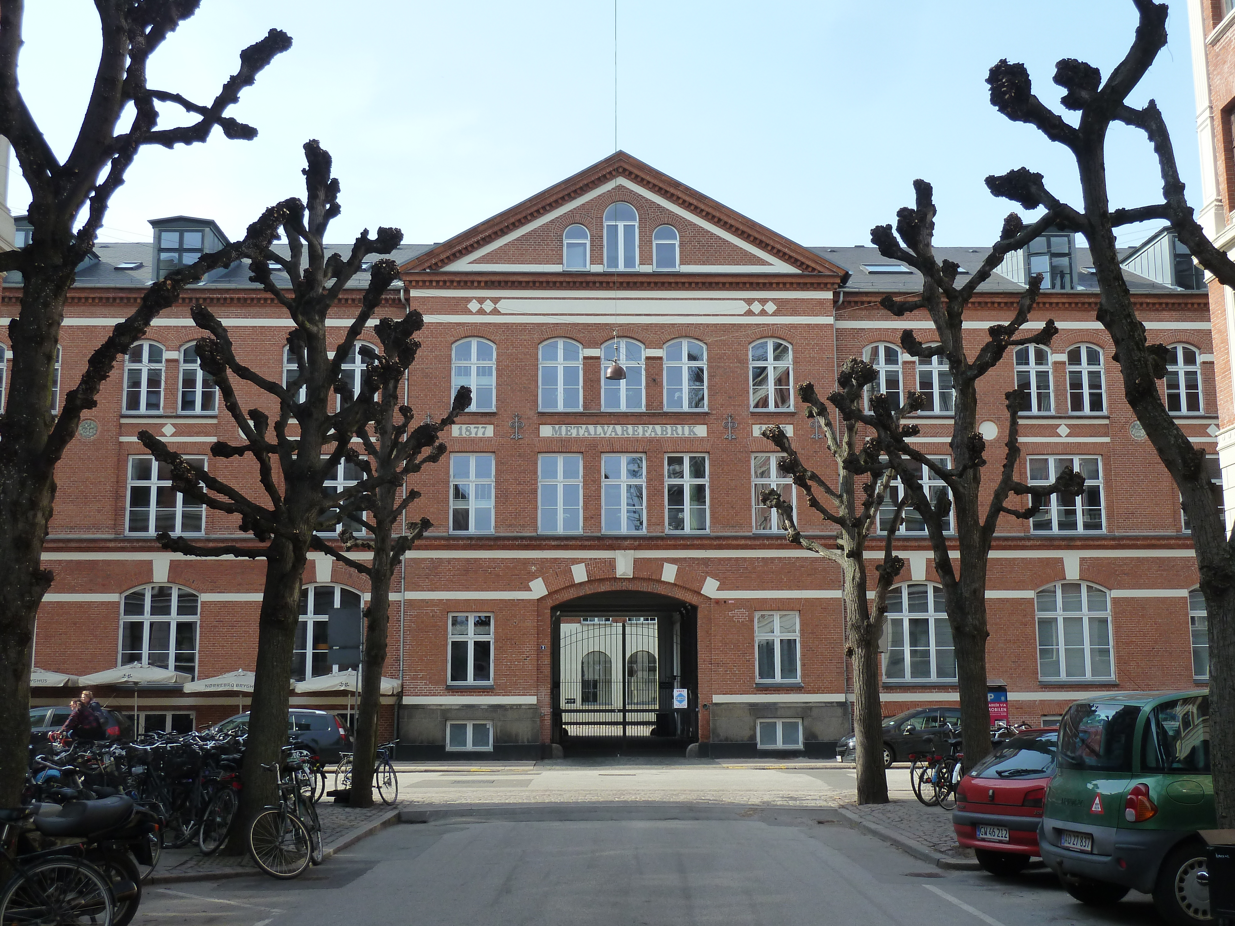 The former Nordisk Metalvarefabrik at 3 Ryesgade in Copenhagen, Denmark